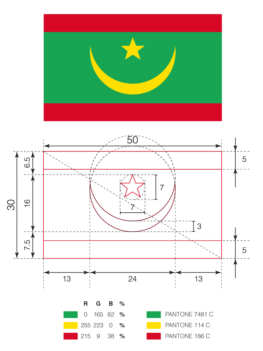 Mauritania flag - Colors